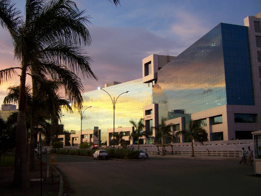 Cyber city pune